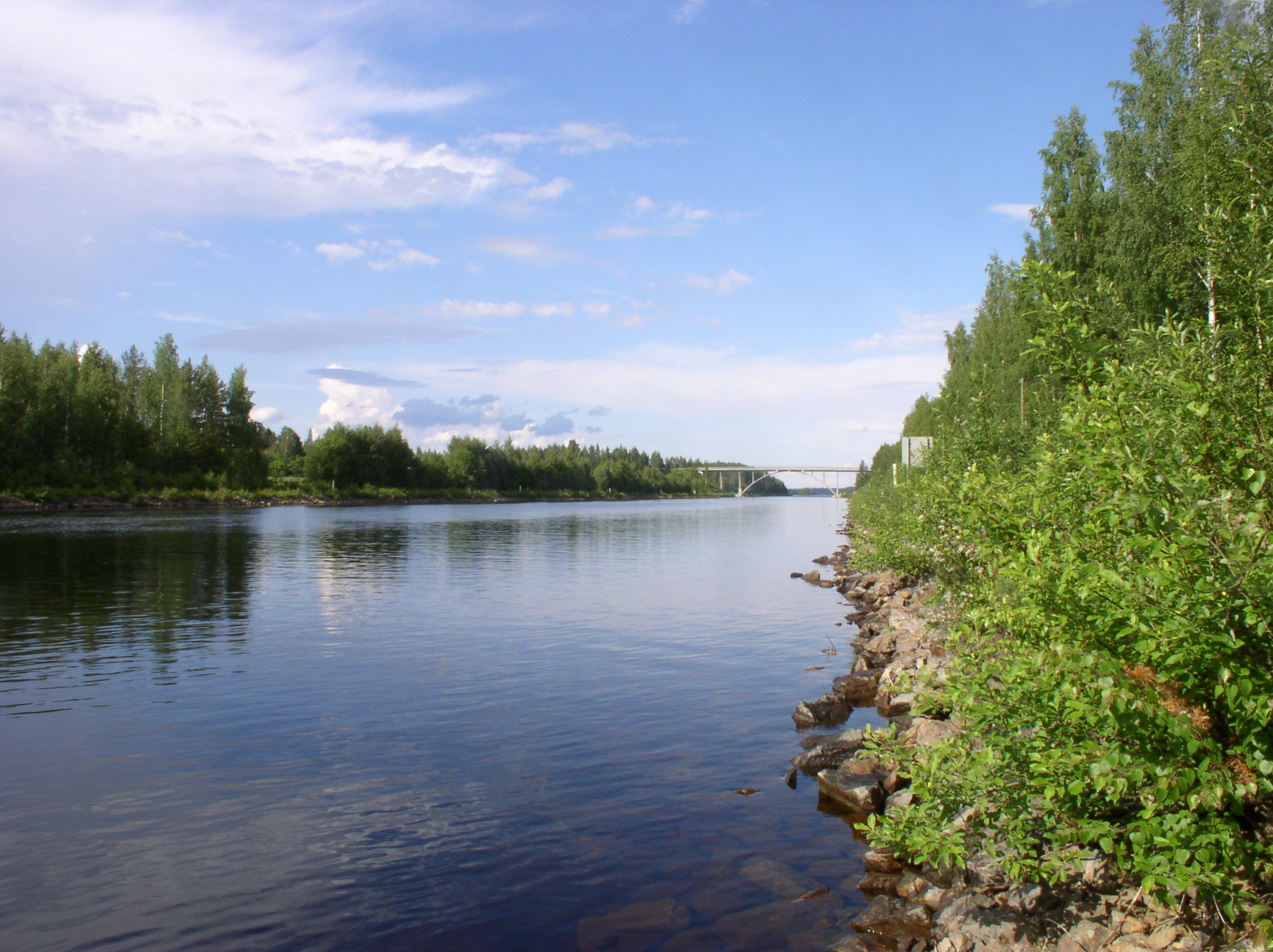 Haponlahti canal in Savonlinna, Finland.